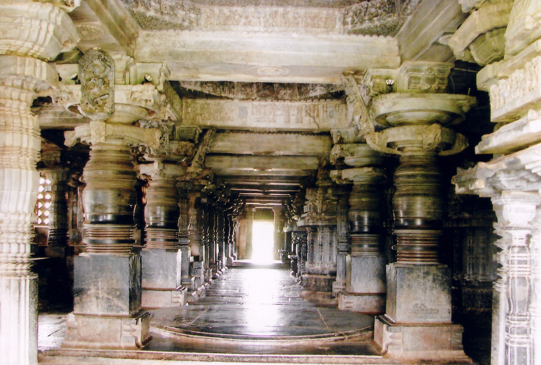 Located in Halebidu (also spelt Hoysaleshwara or Hoysalesvara), Hassan district, Karnataka, India.